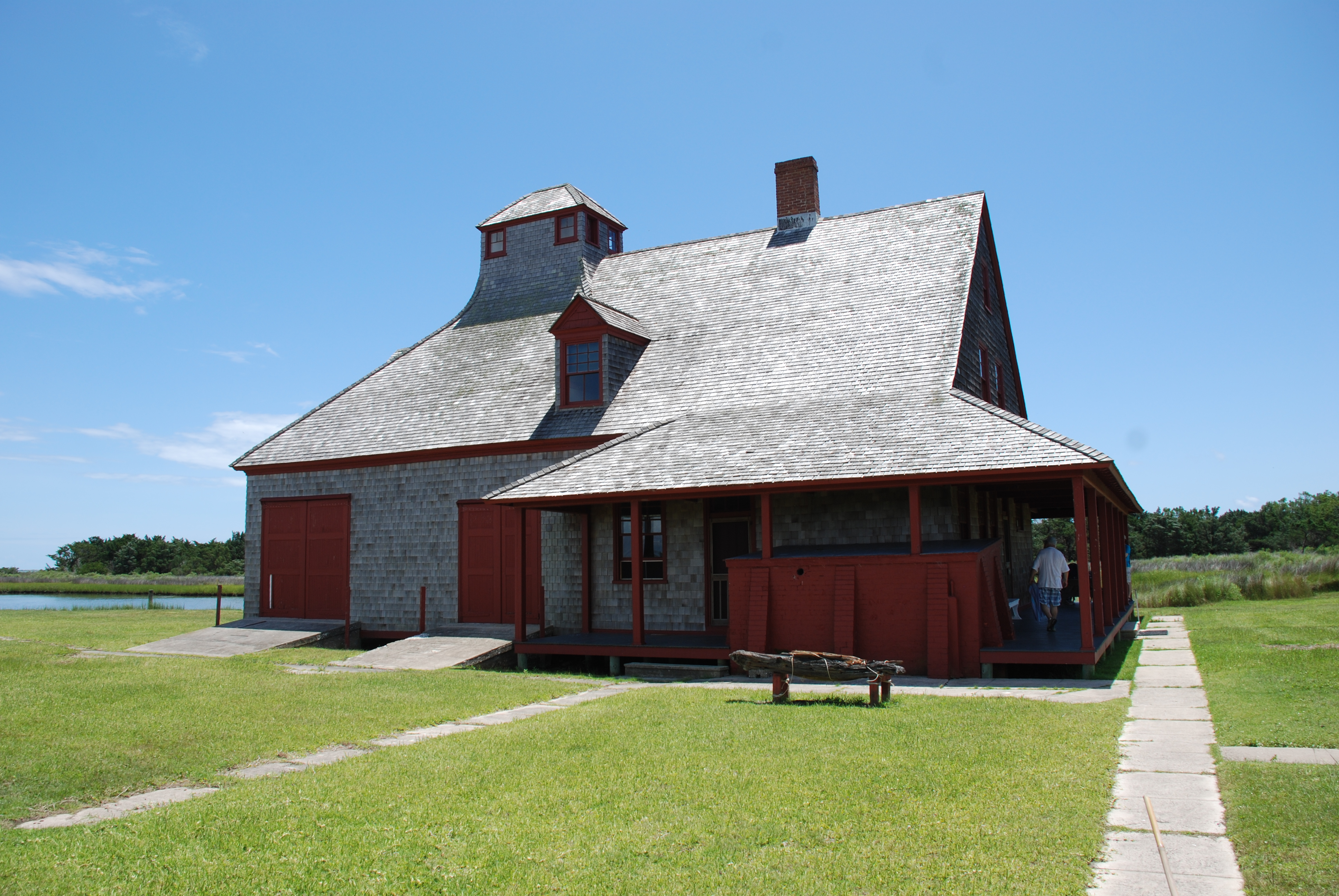 Portsmouth, North Carolina an abandoned village on North Core Banks: U.S. Life-Saving Station build in 1894. During the first 20 years, Keepers and Surfmen in this Station assisted over 85 vessels. The most well known was the rescue of Vera Cruz VII in May 1903, when 421 passengers and crew members were rescued. The station was decommissioned in 1937, but it reopened for a few years during WWII[1].